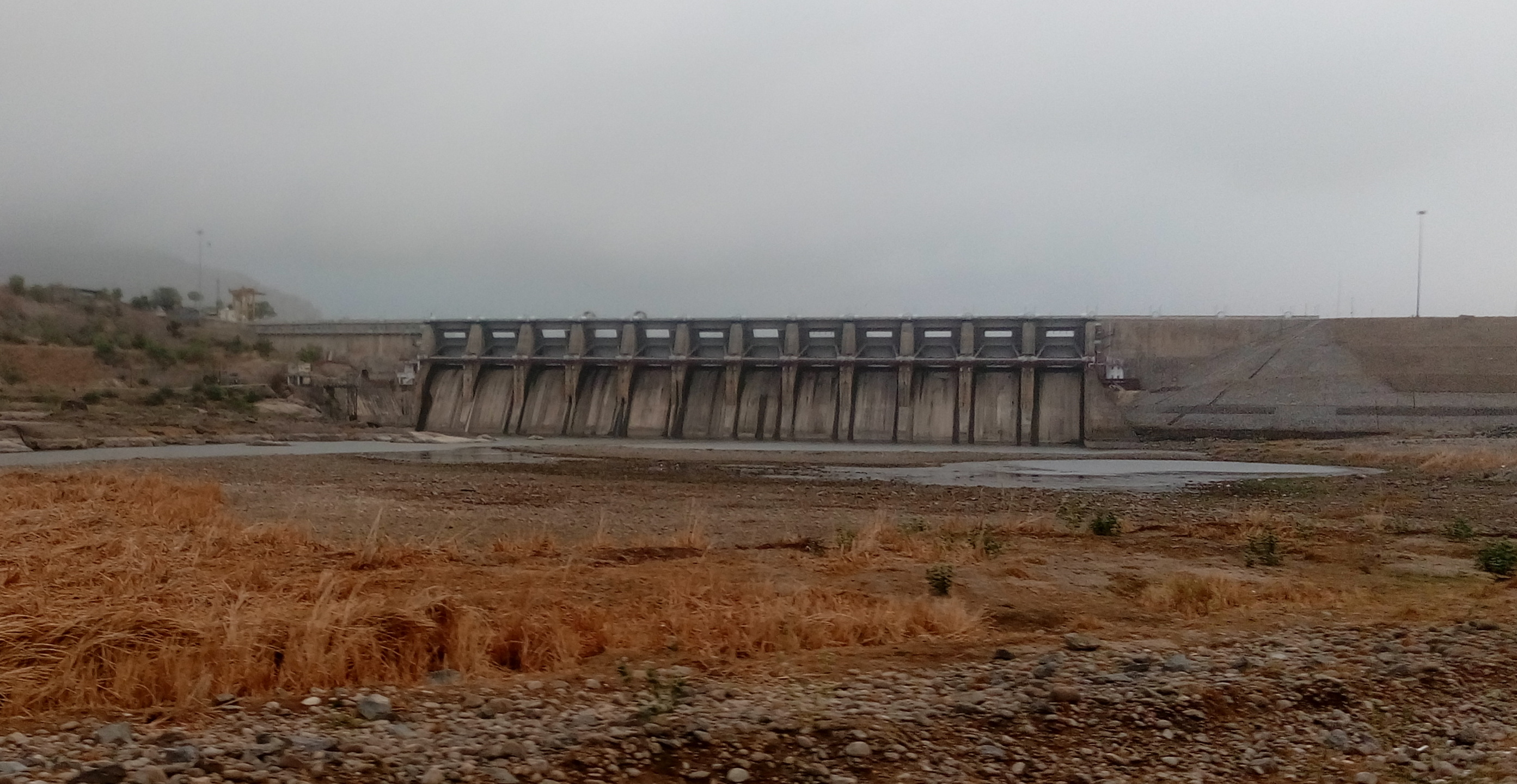 Dharoi dam on Sabarmati river in Gujarat state of India